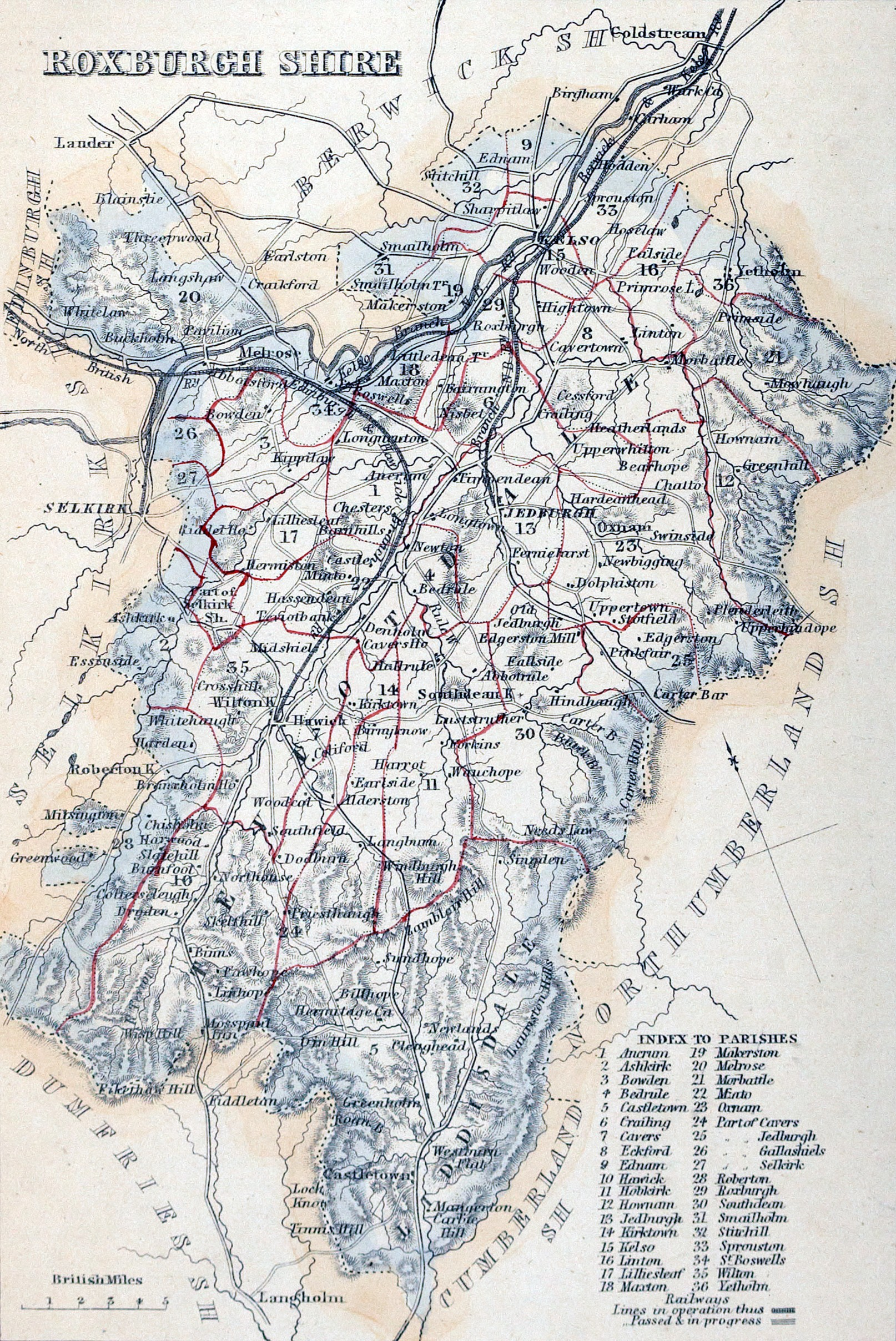 ROXBURGHSHIRE Civil Parish Map. The Imperial gazetteer of Scotland. VOL.II. Edited by Rev. John Marius Wilson.